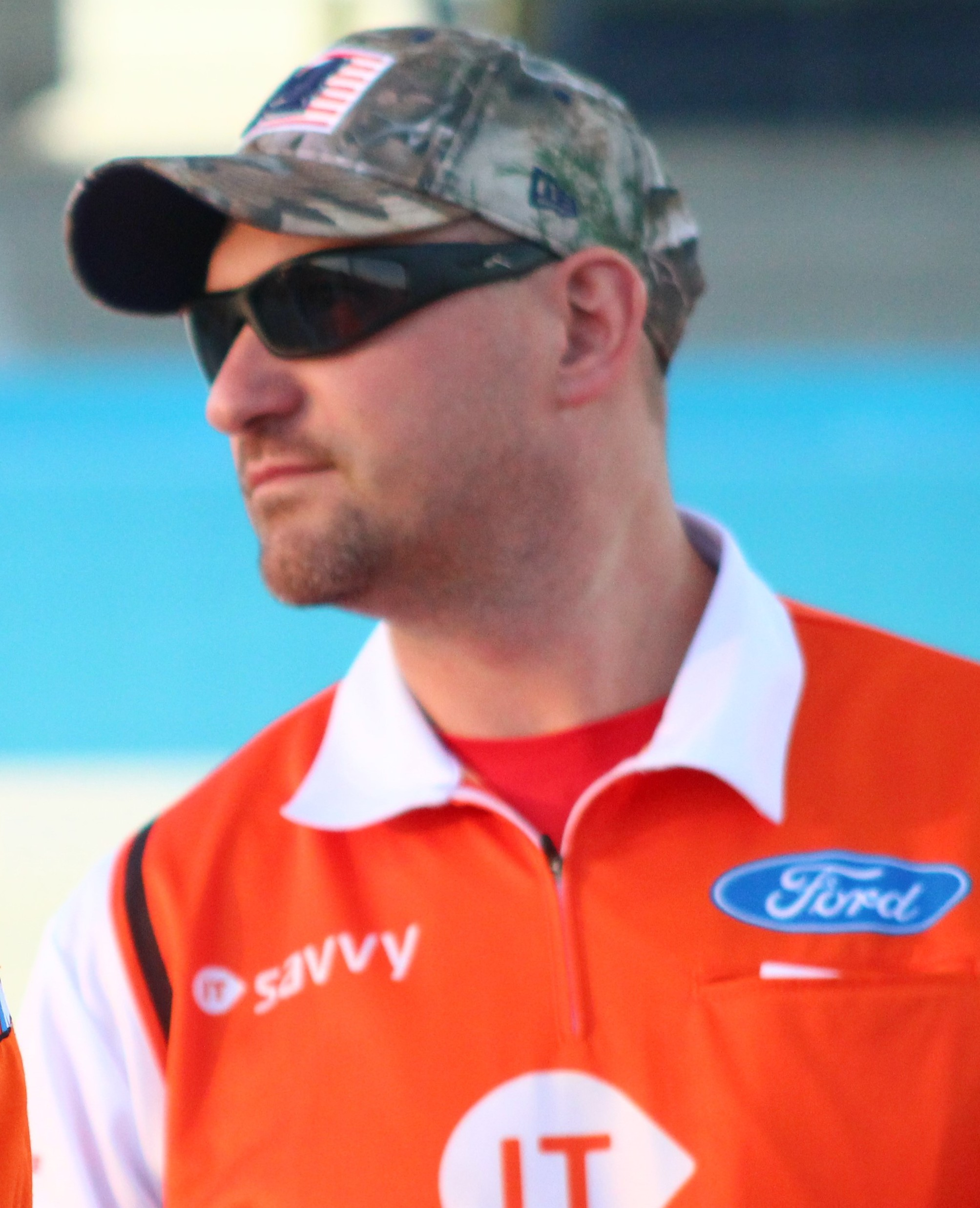 Driver Clint Bowyer and crew chief Mike Bugarewicz in 2018